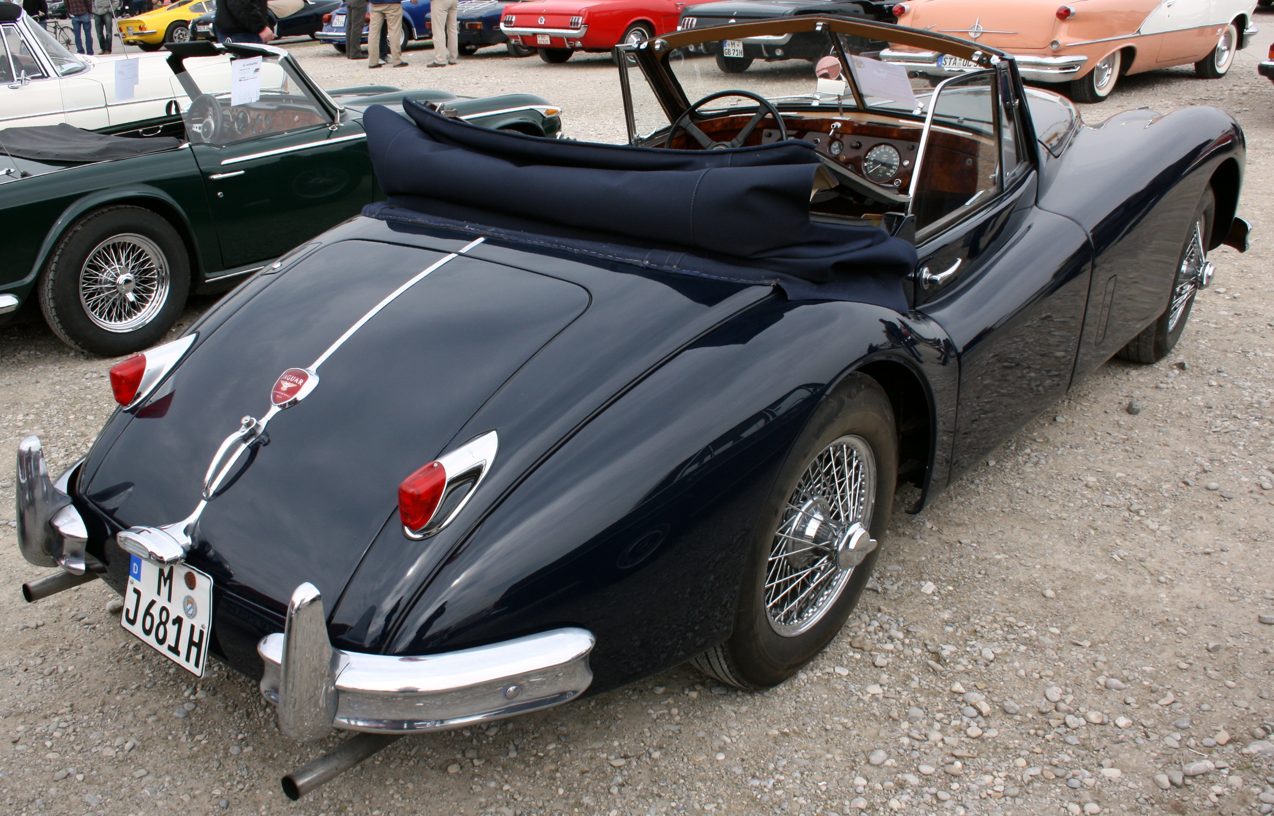 Jaguar XK 140 Year 1955